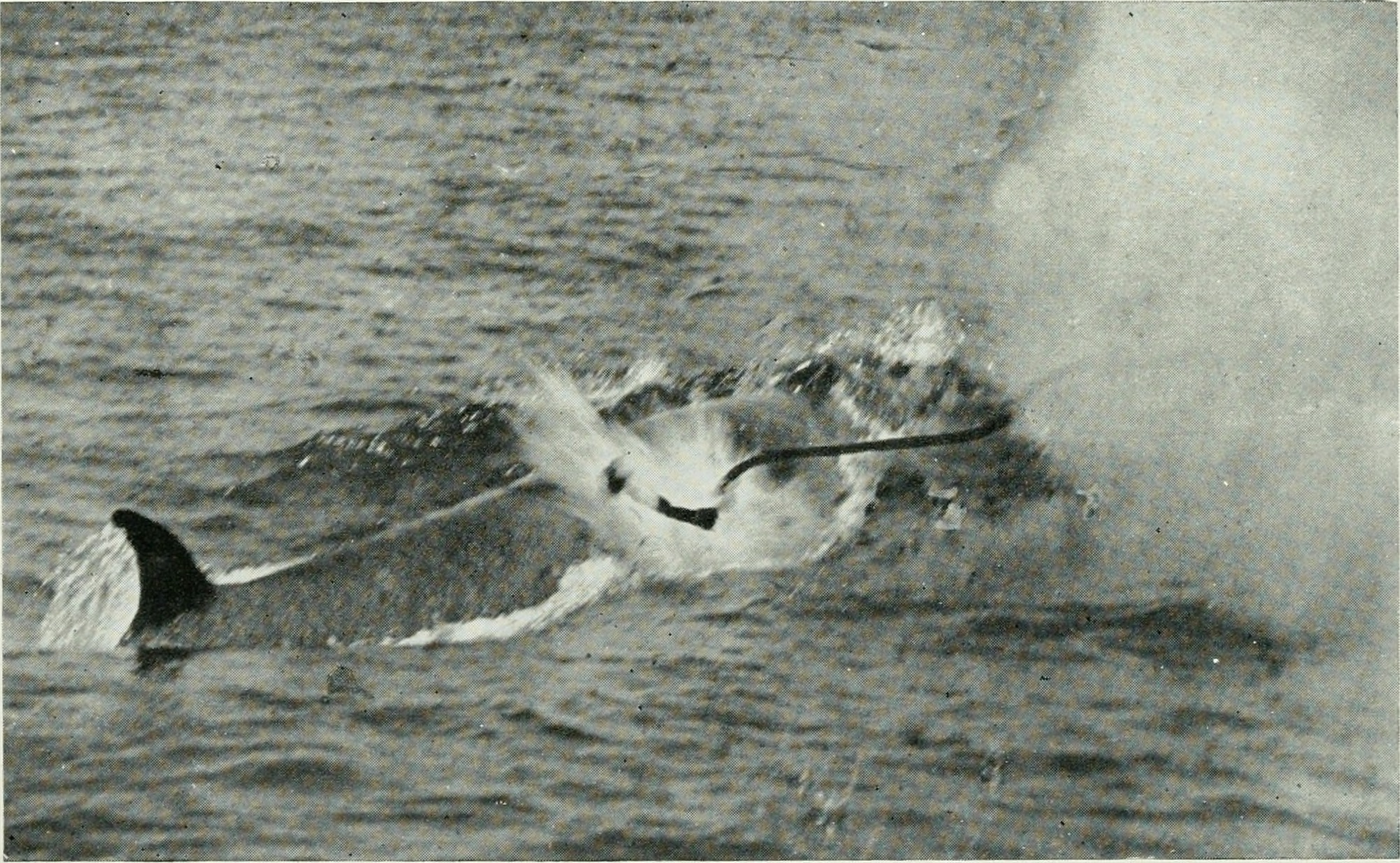 Title: The American Museum journal Year: c1900-(1918) (c190s) Authors: American Museum of Natural History Subjects: Natural history Publisher: New York : American Museum of Natural History Text Appearing Before Image: -^ Courtesy of D. Appleton and Company To capture a whale with either gun or camera requires a quick eye and a steady hand. This photo- graph, in which appear the back of the whale on the surface of the water, the harpoon and line and the black smoke from the discharge of the gun, shows that the click of the camera and the crash of the gun were almost simultaneous Text Appearing After Image: Couvti'sy 0) D. Sppiftiin and Company As the huge gray form rises from the water with clouds of vapor spouting from the open blowholes, the excitement is intense. The gunner, standing by the photographer with his harpoon gun ready, cries, "I shoot, I shoot!"' His words are drowned in the roar, as camera and gun act in unison 6i